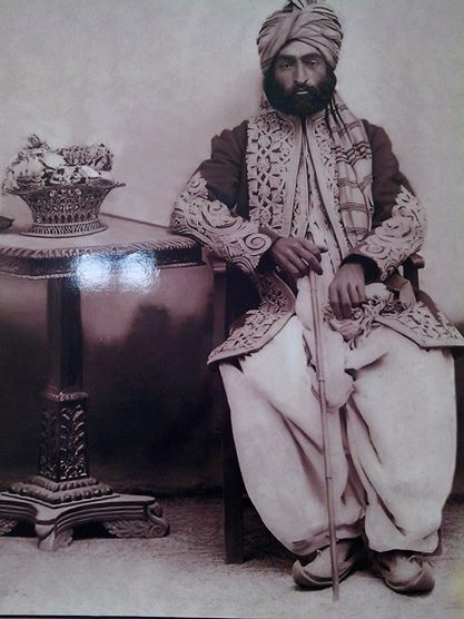 مير محمد مراد ملازئی